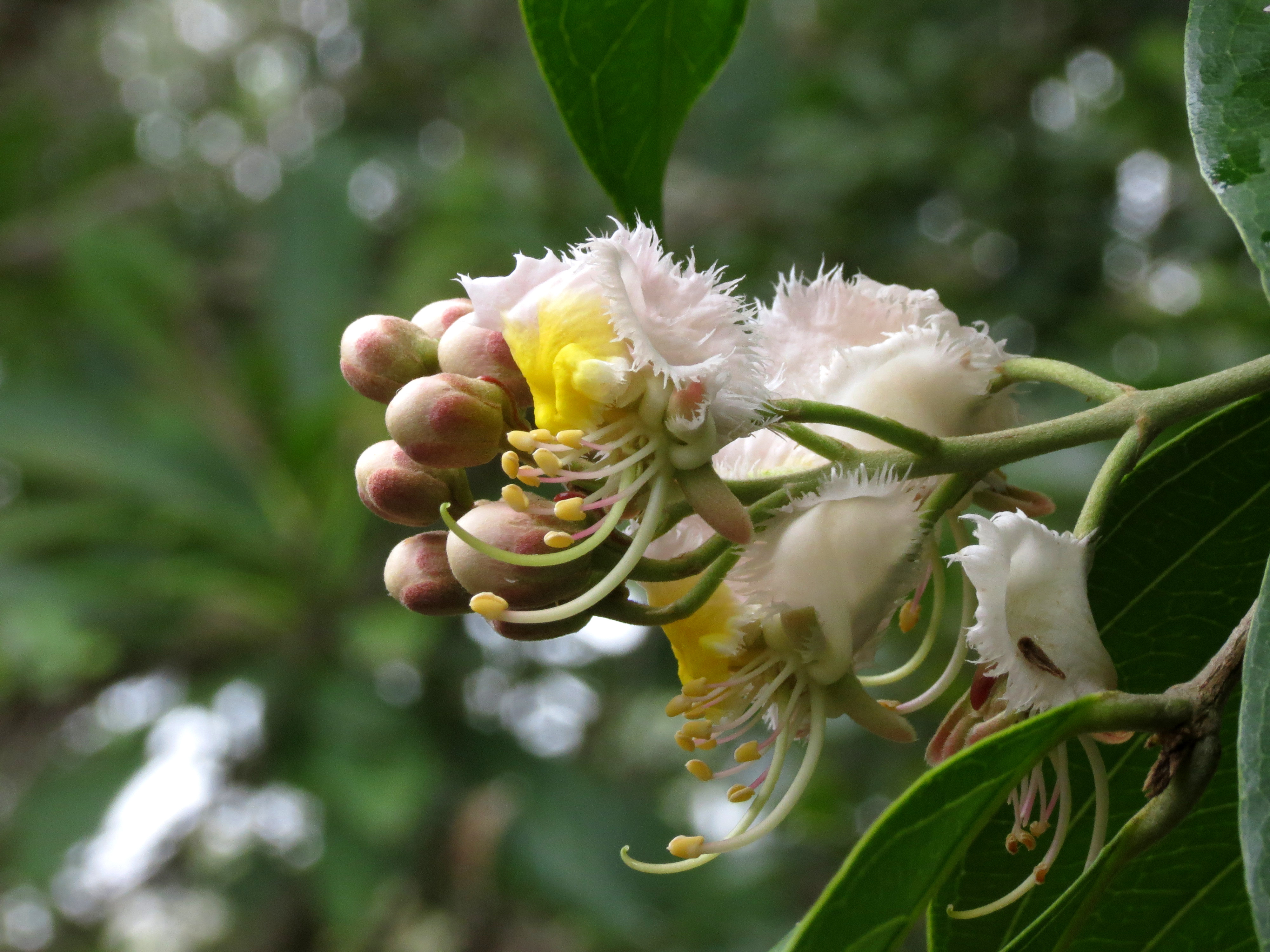 Hiptage benghalensis seen in Gulkamale bangalore rural off Kanakapura road